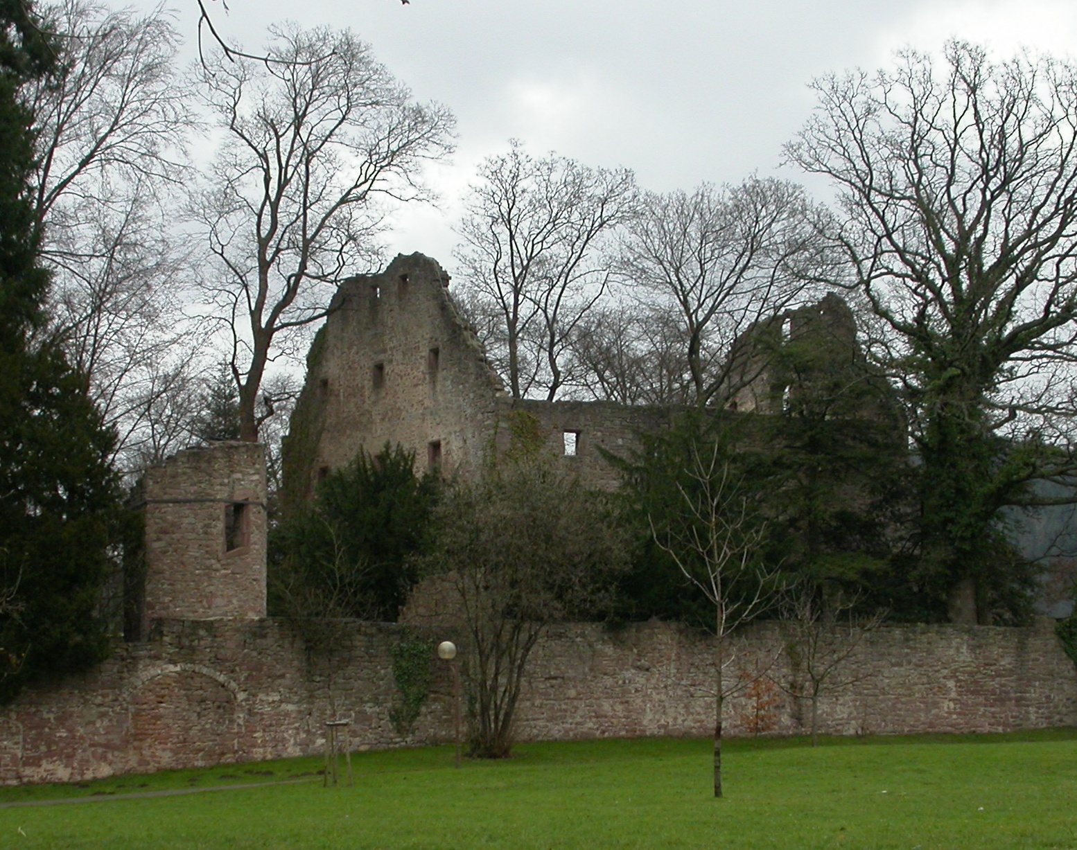 Ruin at the Castle of Neuenbürg